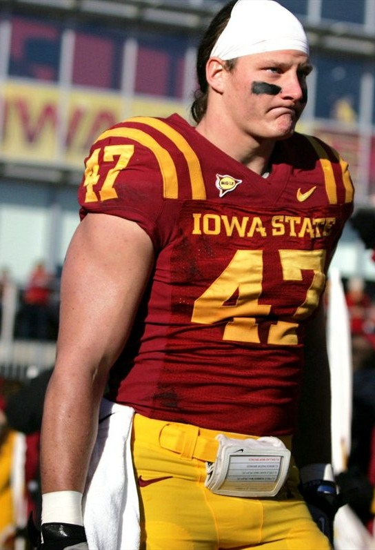 Iowa State Cyclones linebacker, A.J. Klein, in 2012.